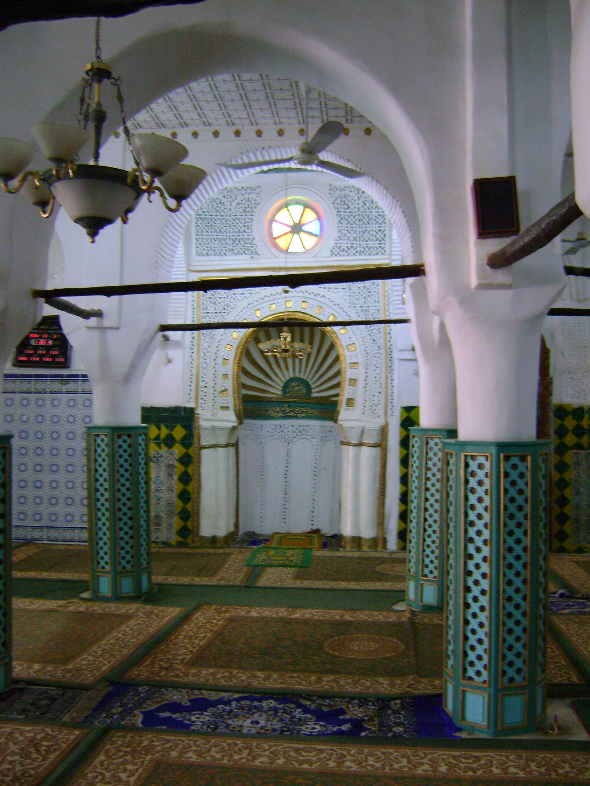 Interior view with mihrab — of the Mosquée Sidi-Okba, Algeria.